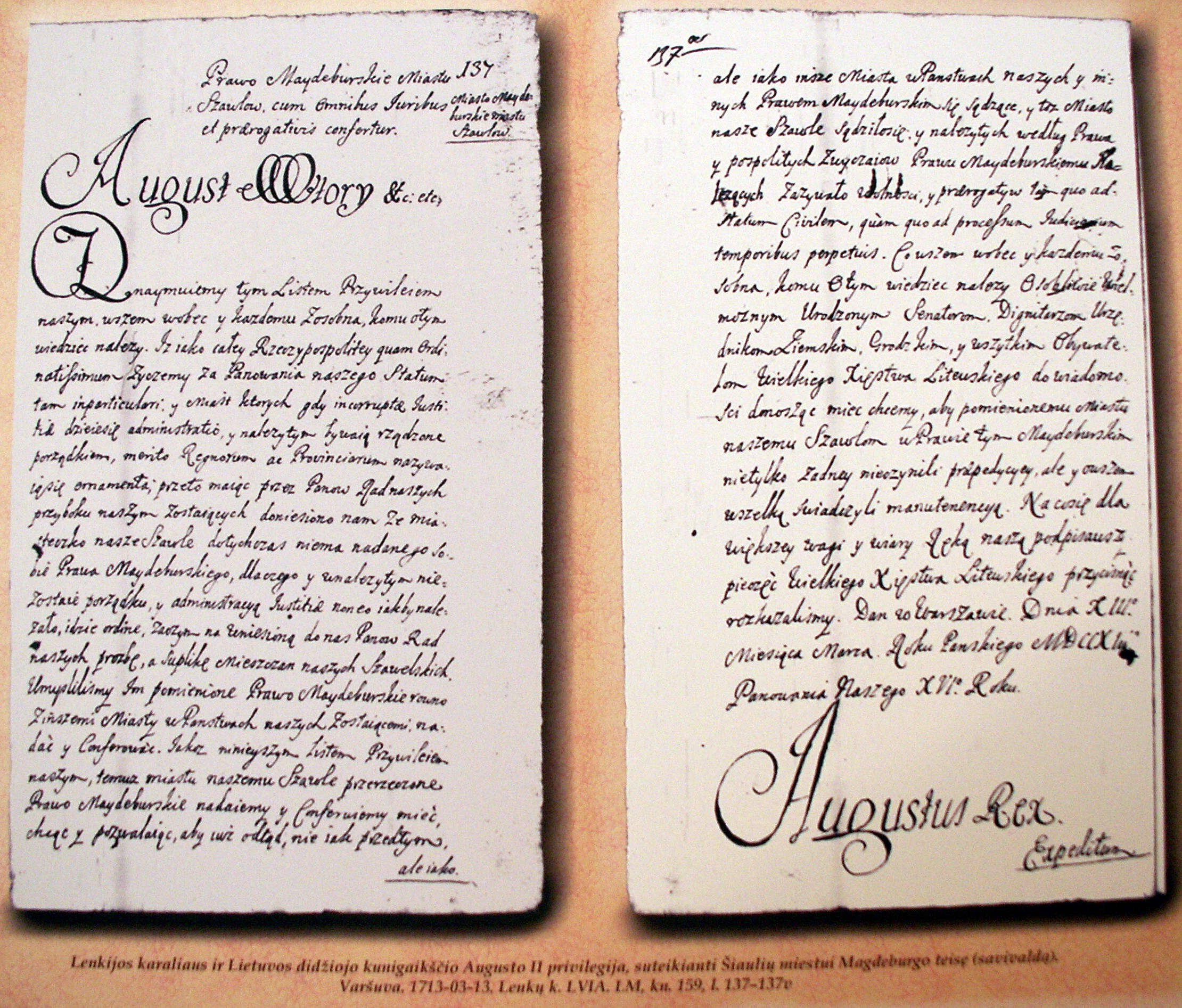 Privilegium of August II for Šiauliai, 1713-03-13. Museum Aušra